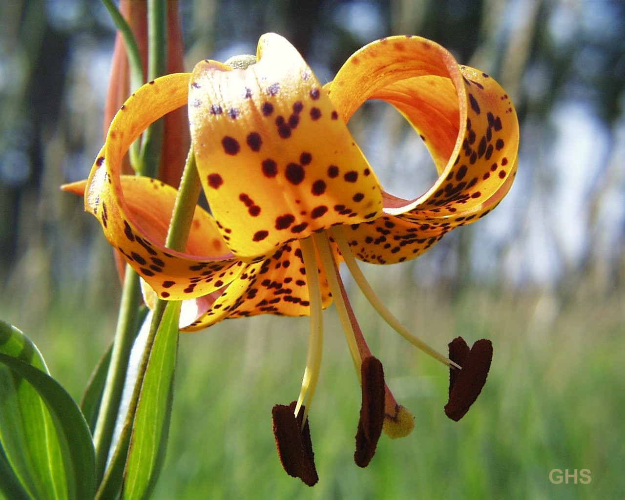 Tiger lily bloom from the GIMP photo library